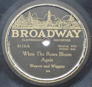 When the Roses Bloom Again by Weaver and Wiggins [Wilmer Watts & Frank Wilson], Broadway 1927.